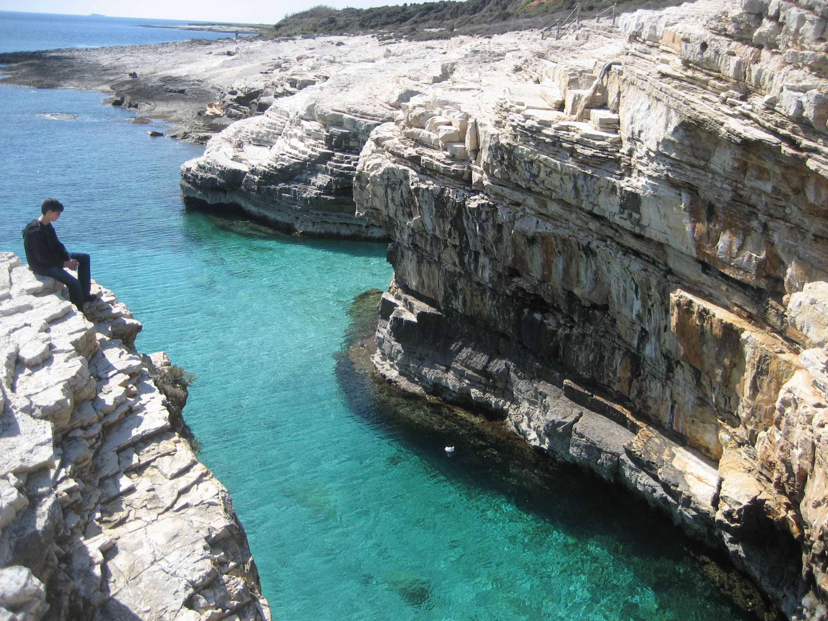 Cape Kamenjak, Northwest Croatian Coast